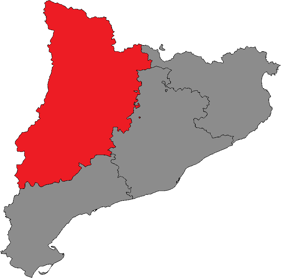 Parliament of Catalonia district of Lleida.